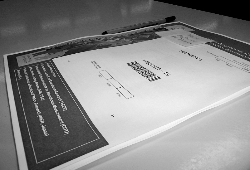 test documents for the Programme for International Student Assessment (PISA) on a table in the Neues Gymnasium Oldenburg, a school in north germany